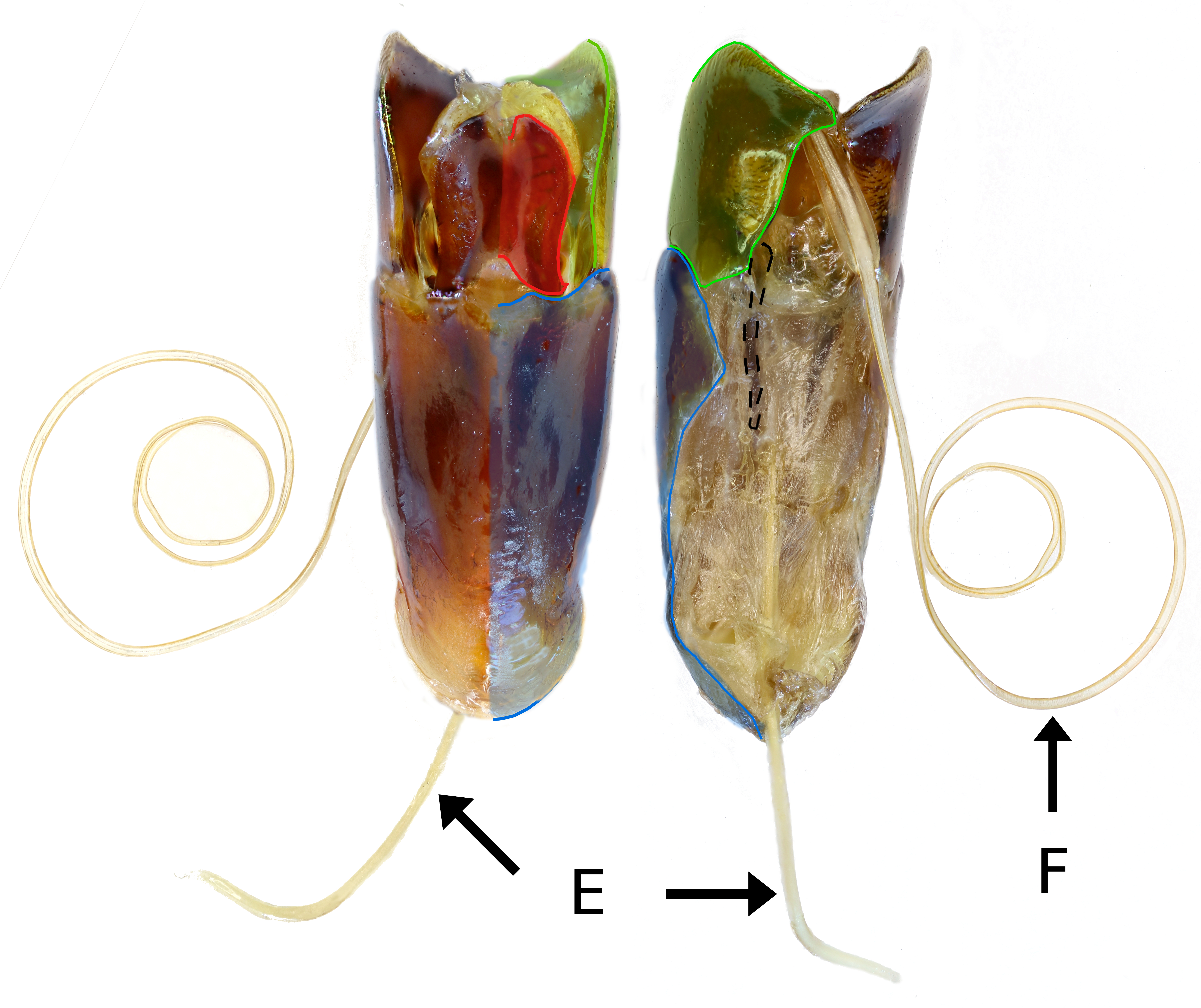 Lucanus cervus Aedeagus Photo of aedeagus of Lucanus cervus, from upside left, from downsode right hand side, right bodyside partly couloured: blue: basal part, phallobase; green: lateral lobes, parameres; red: sklerotizised part of penis; yellow: yellow: part of internal sac; black dashed line: Apodem. E: ejaculatory duct F: flagellum